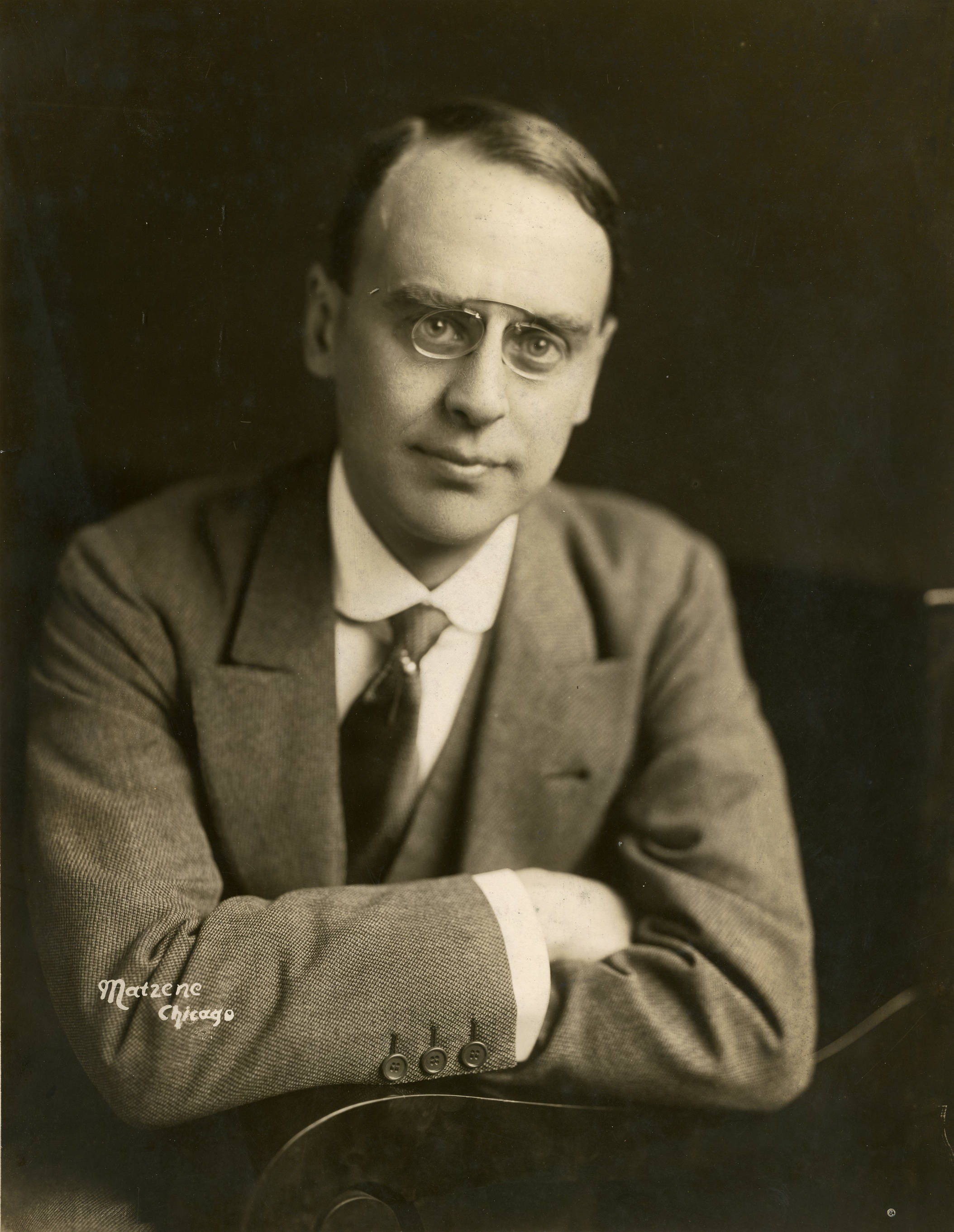 Ettore Perosio, musical director Subjects: musicians